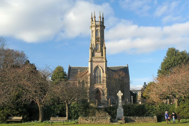 Rhu Parish Church, Argyll and Bute (formerly W. Dunbarton)